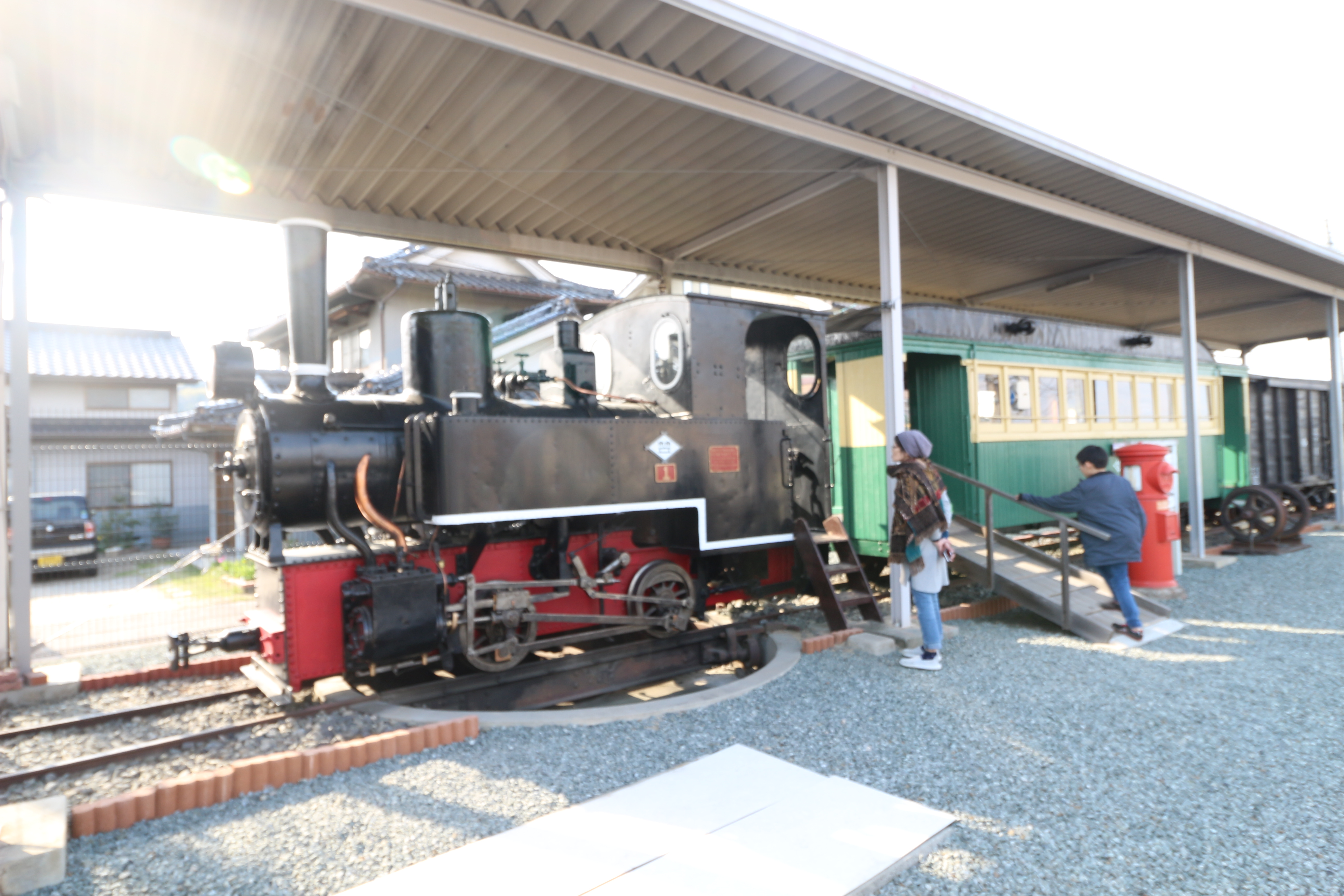 Type 1 Locomotive of Ikasa Railway, preserved at Iksasa Railway Memorial Museum